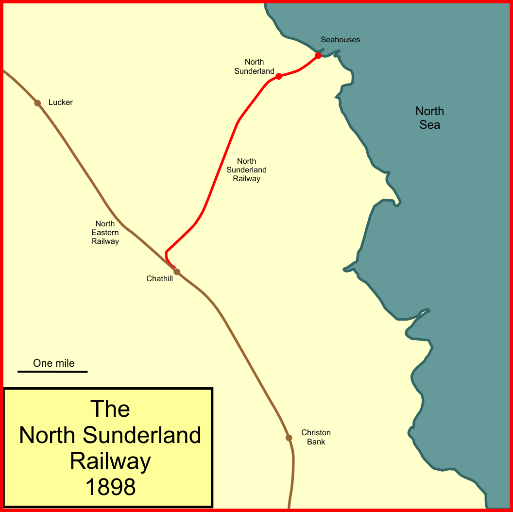 System map of the North Sunderland Railway, Northumberland, England